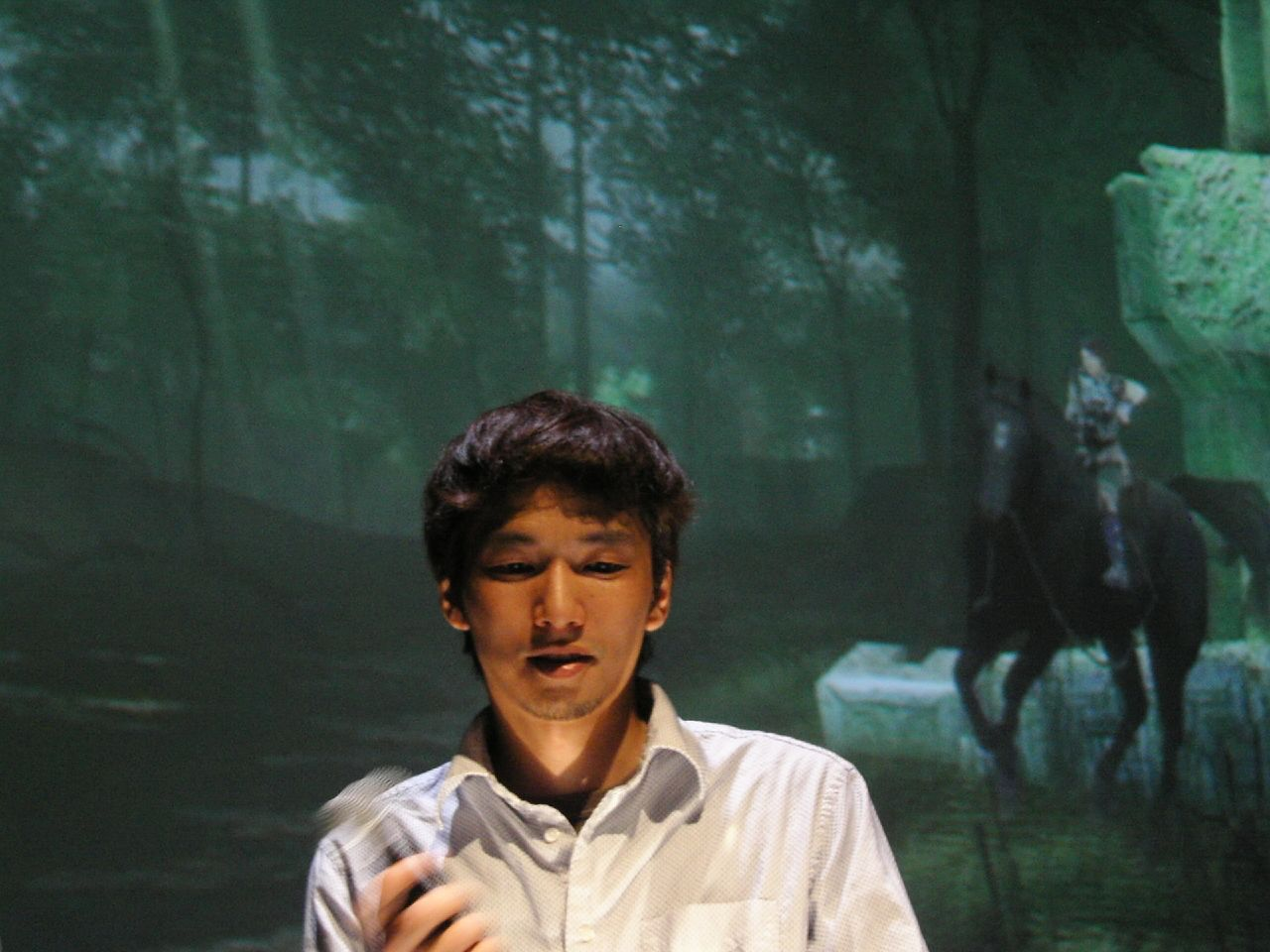 Fumito Ueda and Shadow of the Colossus. He and his producer came to Art Futura 2005 only two or three weeks after delivering the gold master for Shadow of the Colossus.